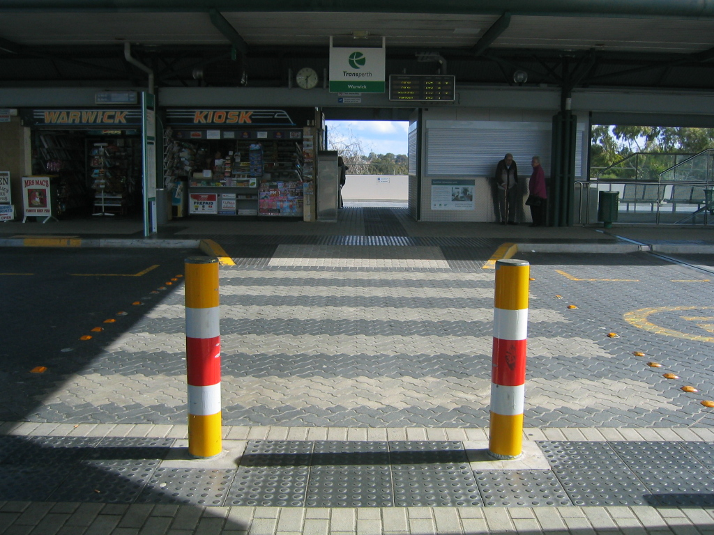 Transperth Warwick Train Station